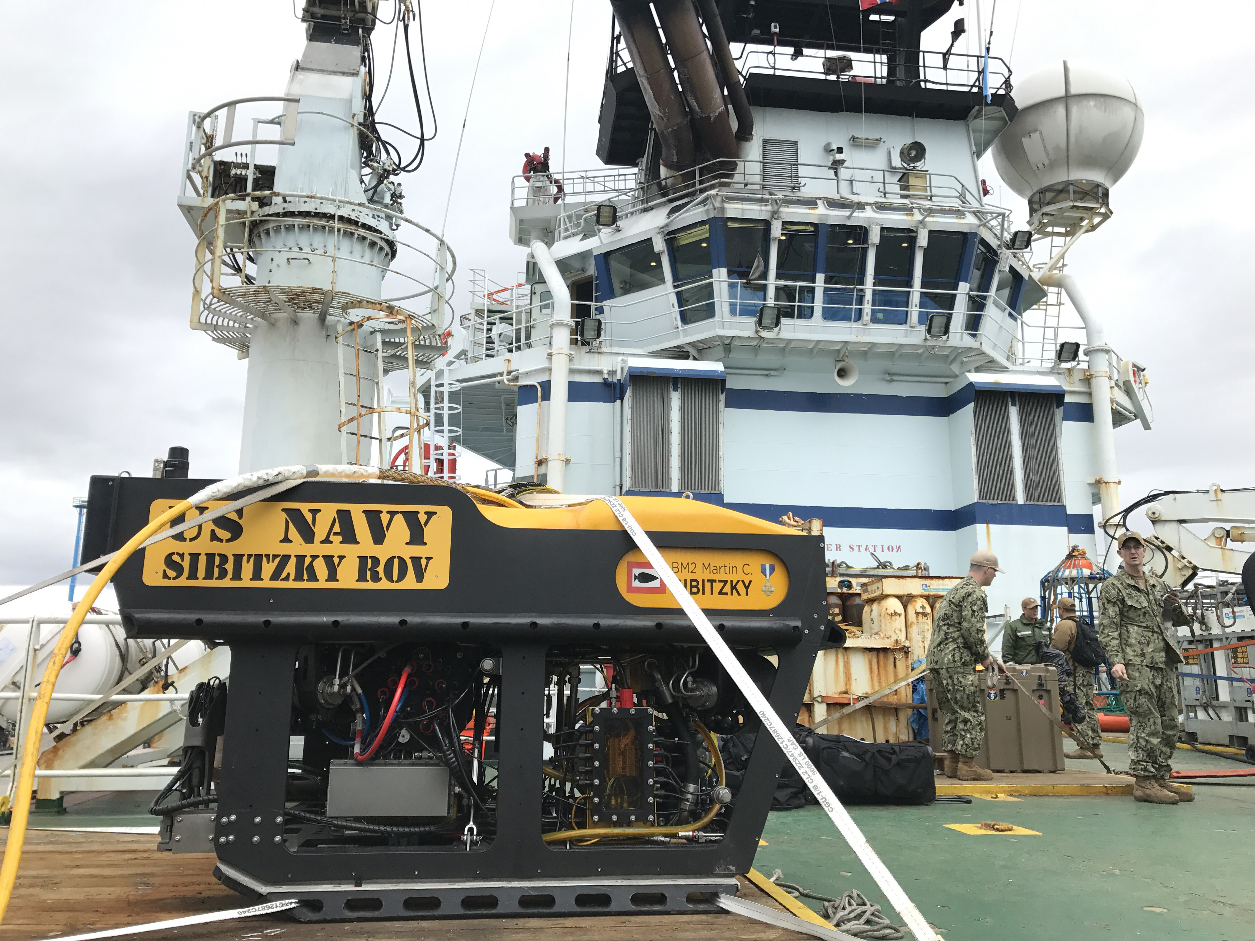 ATLANTIC OCEAN (Nov. 21, 2017) A remotely operated underwater vehicle operated by the U.S. Navy’s Undersea Rescue Command (URC) is staged aboard the Norwegian vessel Skandi Patagonia to support the ongoing search for the Argentine navy submarine A.R.A. San Juan (S 42) in the Atlantic Ocean. URC Sailors are highly trained and routinely exercise employing the advanced technology in submarine rescue scenarios. (U.S. Navy photo/Released)171121-N-TY130-005 Join the conversation: navylive.dodlive.mil